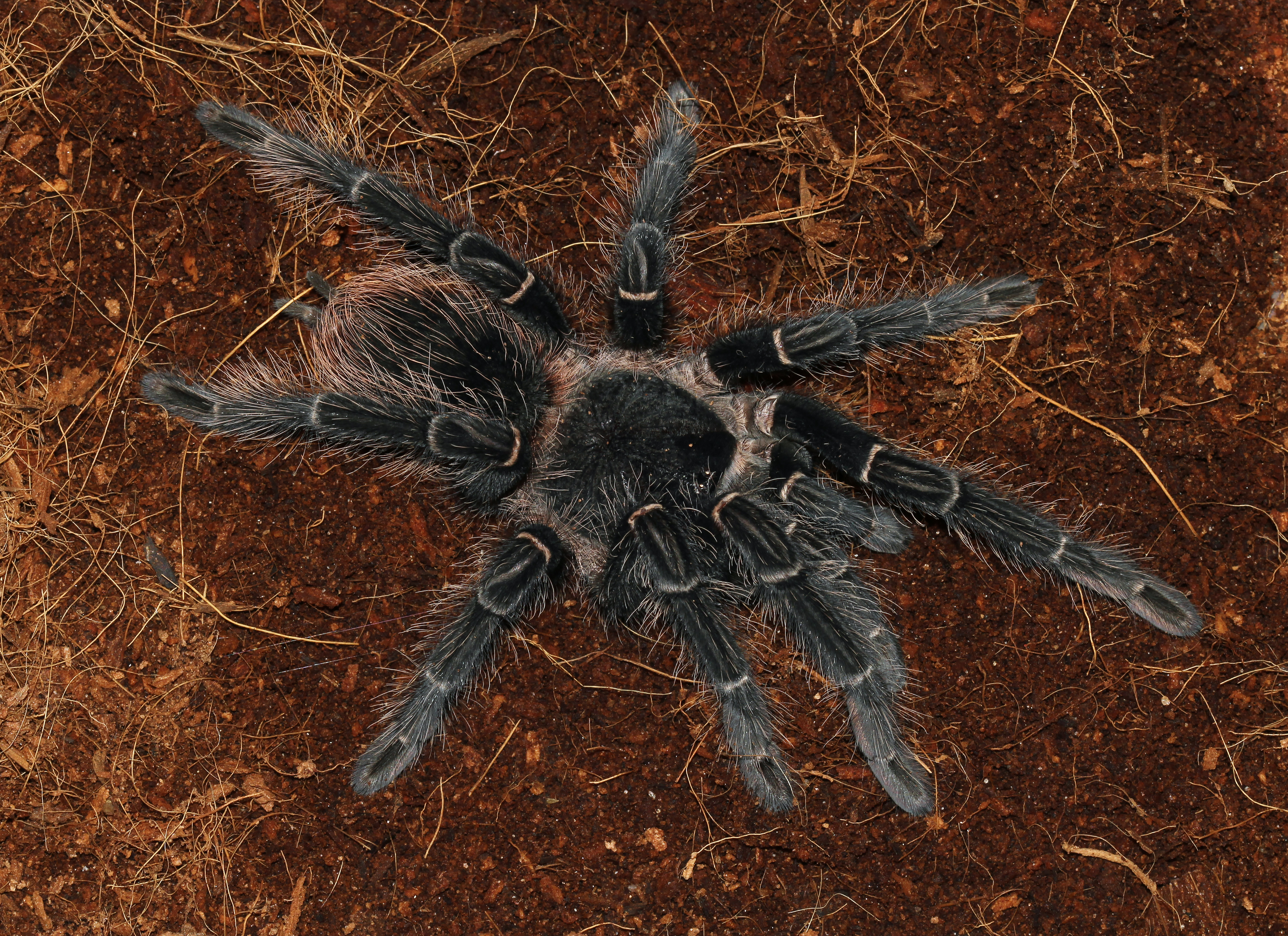 Brazilian salmon pink tarantula (aslo birdeater) male (Lasiodora parahybana). Spider from a private zoo collection.